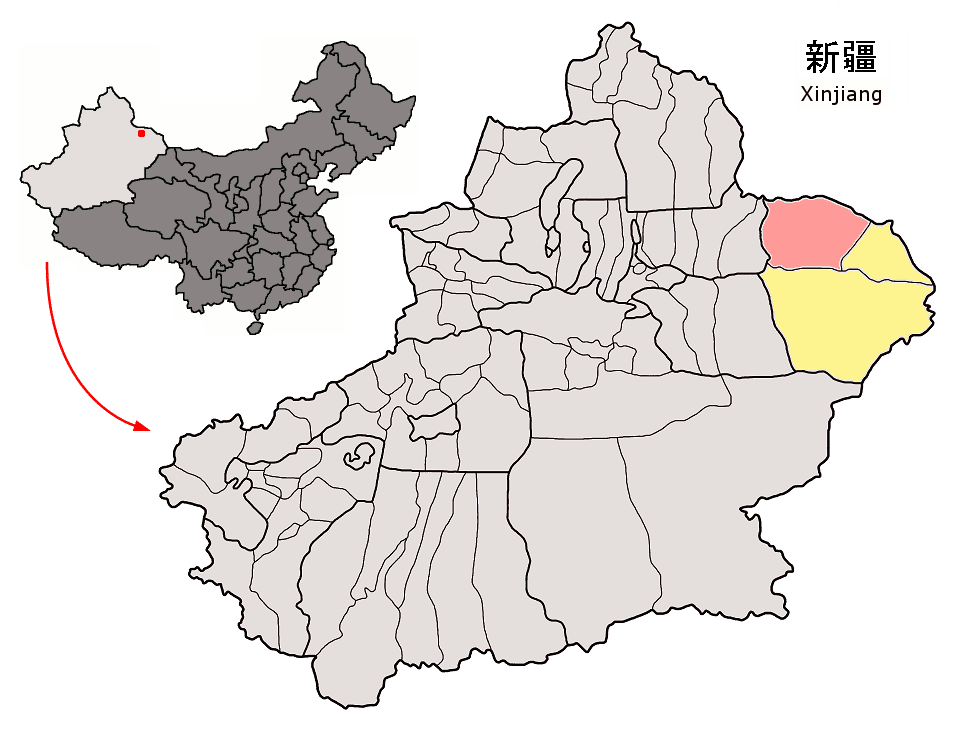 Location of Barkol County (pink) and Hami Prefecture (yellow) within Xinjiang autonomous region of China.